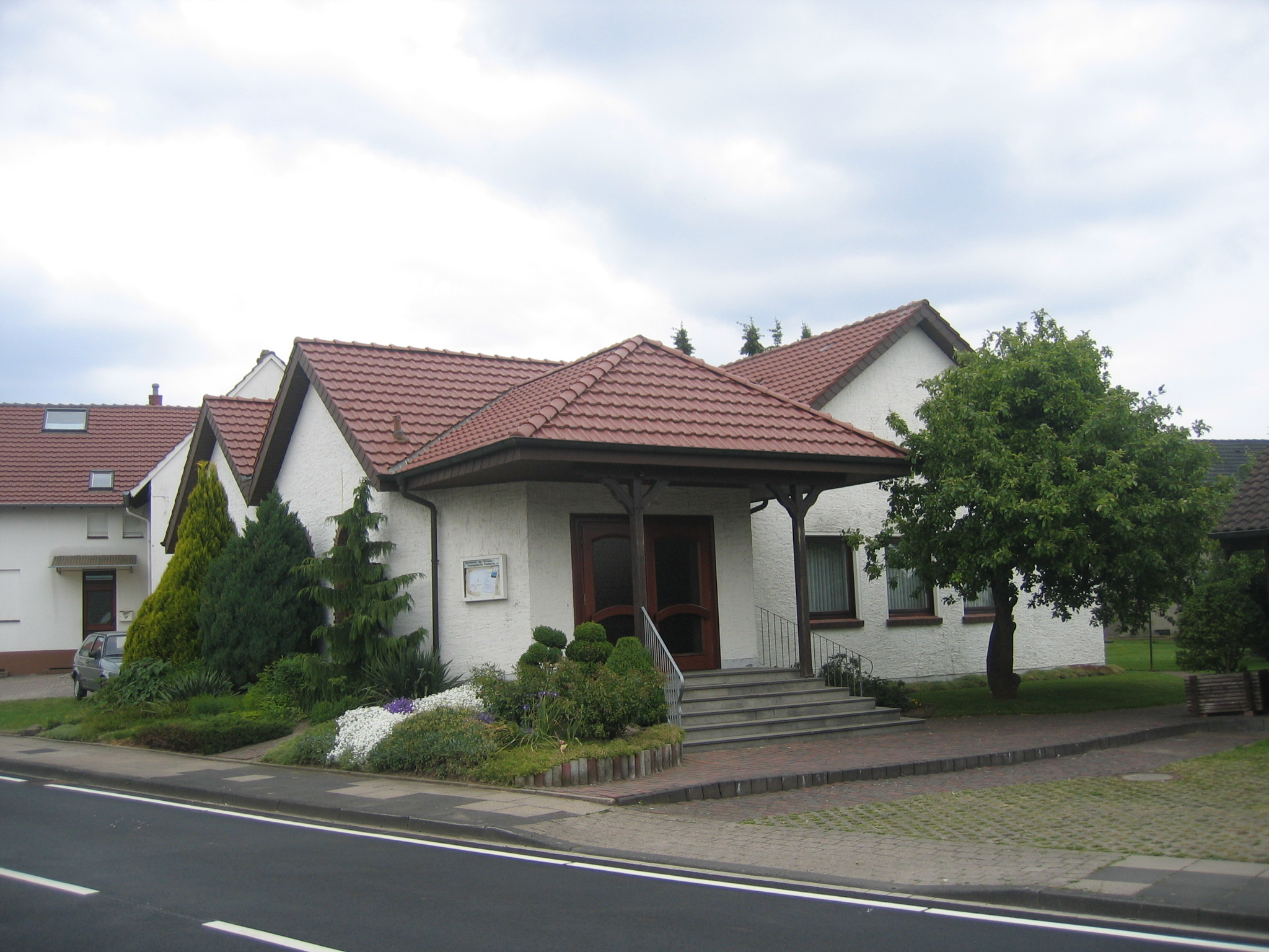 Church in Rödinghausen, District of Herford, North Rhine-Westphalia, Germany.